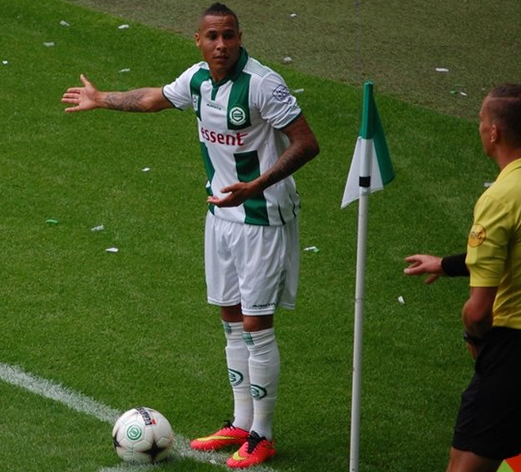 Tjaronn Chery at FC Groningen